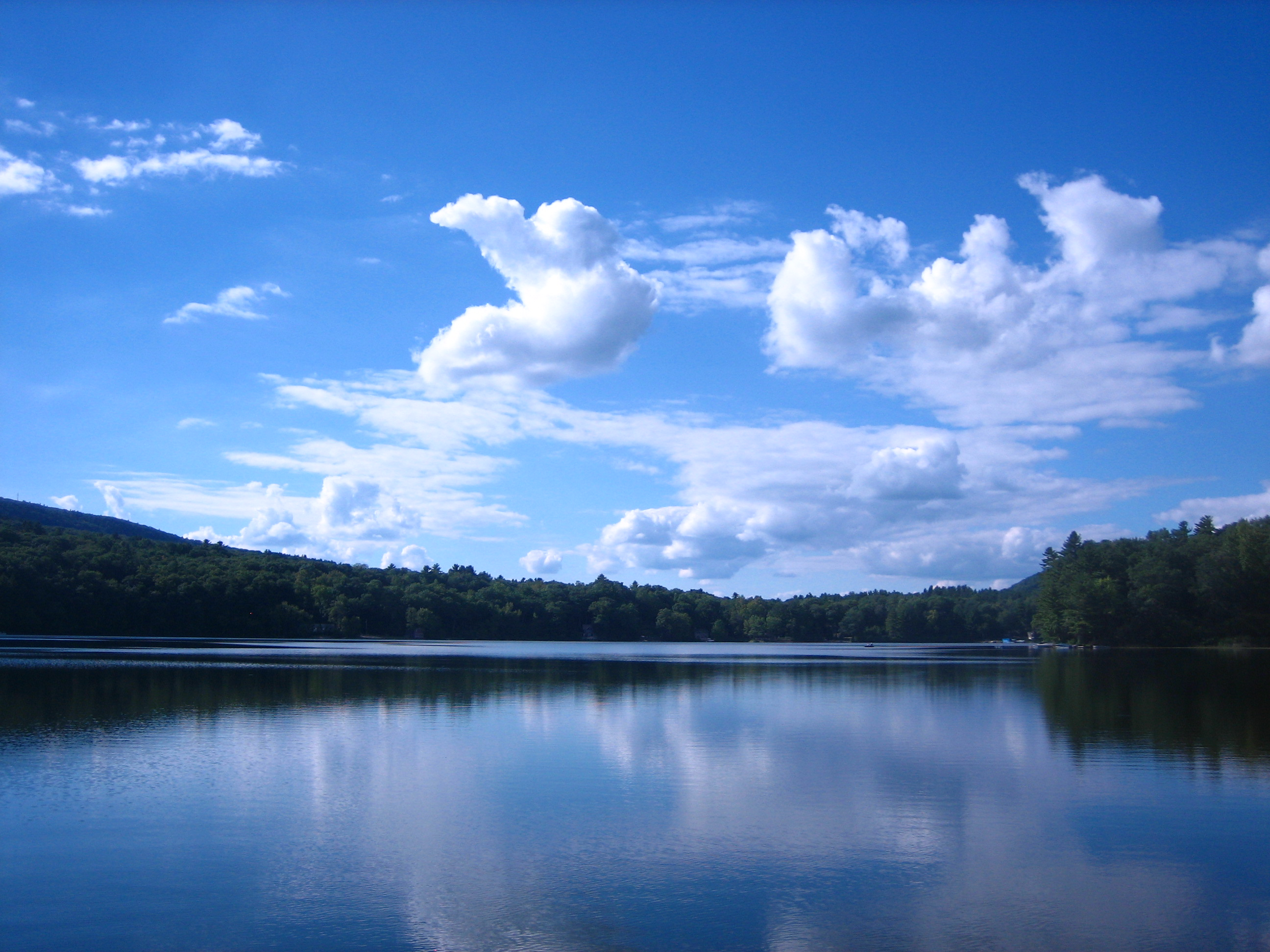 I took this.